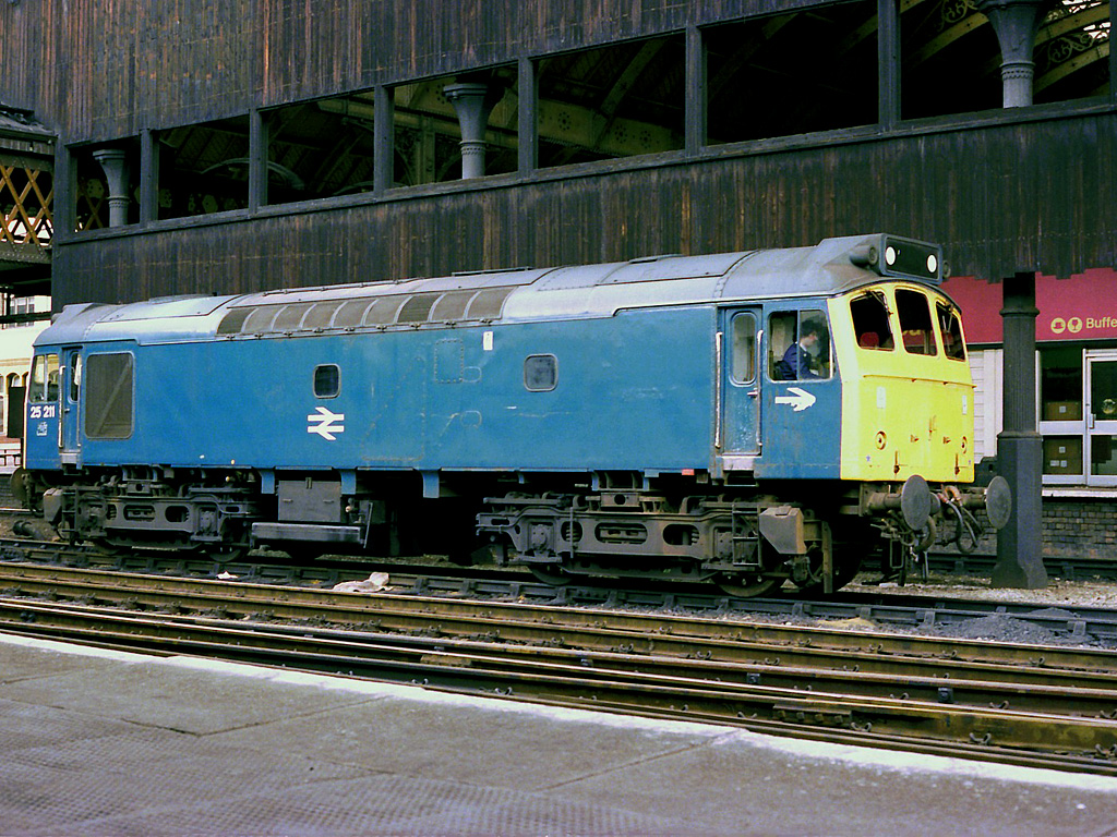 British Railways Type 2 Bo-Bo class 25/2 diesel-electric locomotive number 25211 of Crewe DTMD stands on Wall Siding at Manchester Victoria station acting as Wall Siding Pilot (0T42). Sunday 20th July 1980